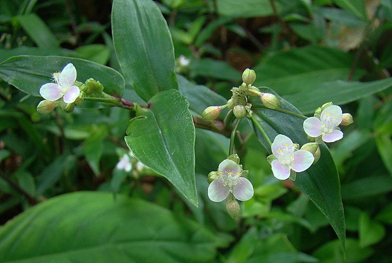 Tripogandra serrulata (Pink Trinity), Isla Solarte, Panama